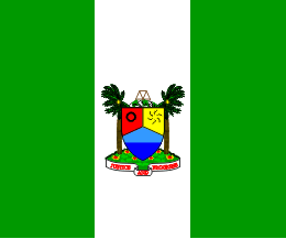 Flag of Lagos